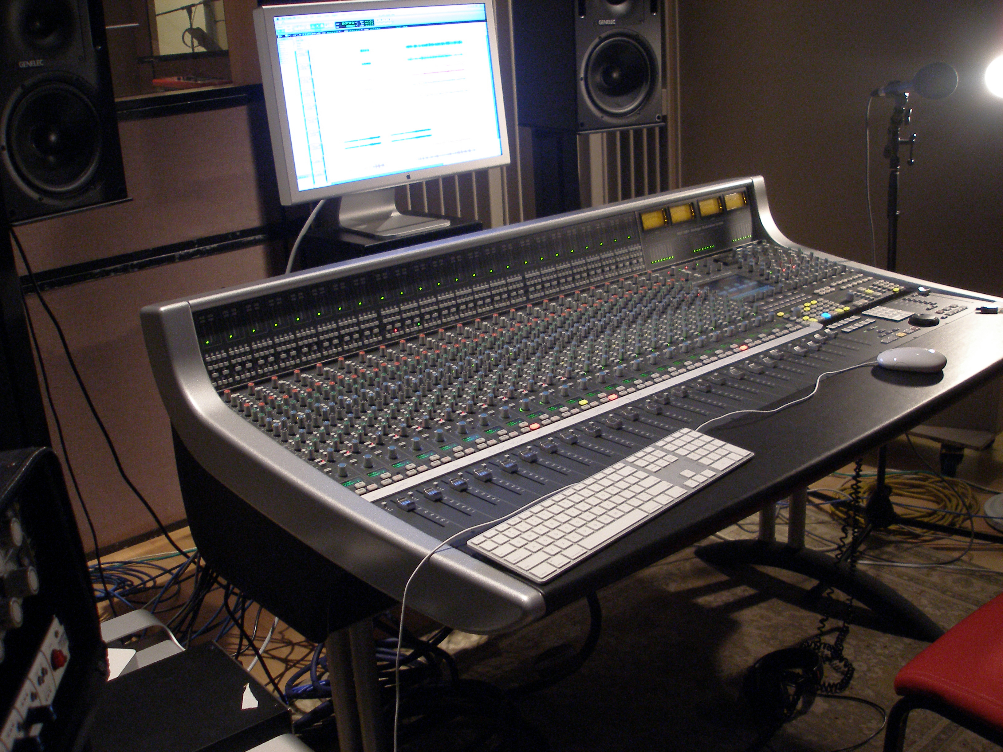 Performance Studio (Chicago)'s control room SSL AWS 900+ Analogue Workstation System (analogue mixing console and DAW controller) Genelec 1031A (5), 1092A Subwoofer